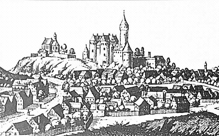 Town Belzig with castle Eisenhardt around 1626, state Brandenburg, Germany.